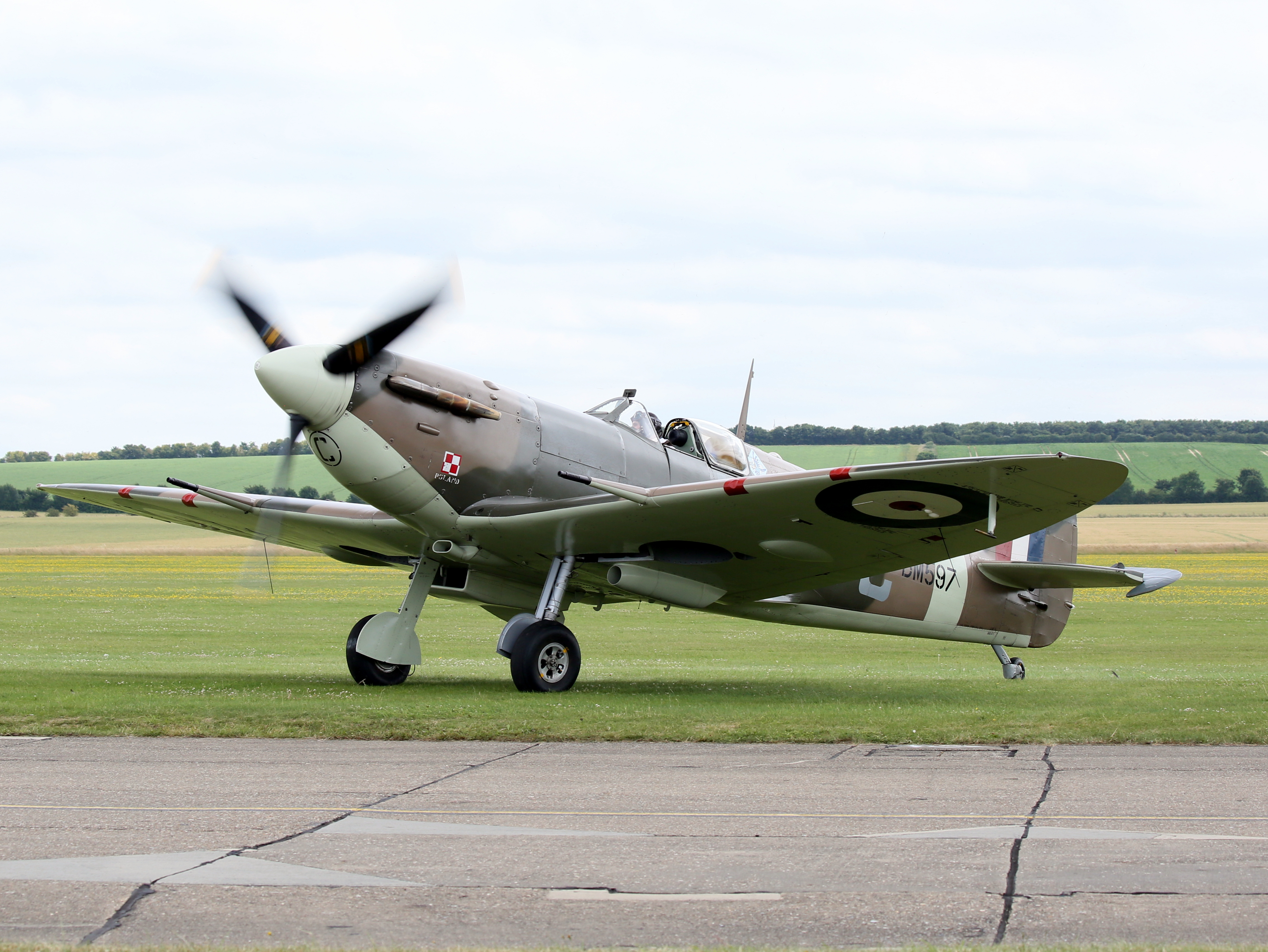 Flying Legends air show 2016